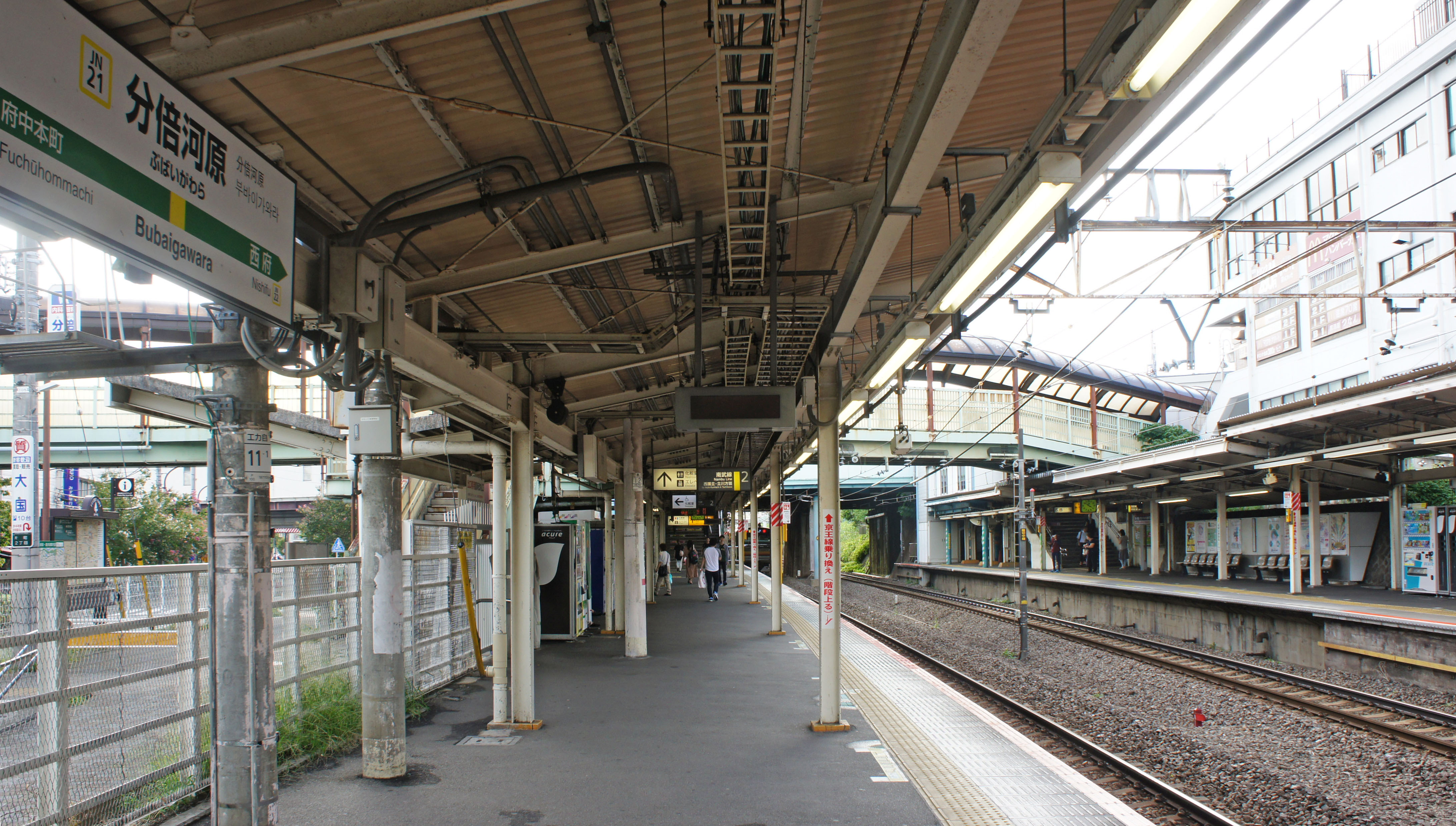 Platform of JR Nambu-Line Bubaigawara Station